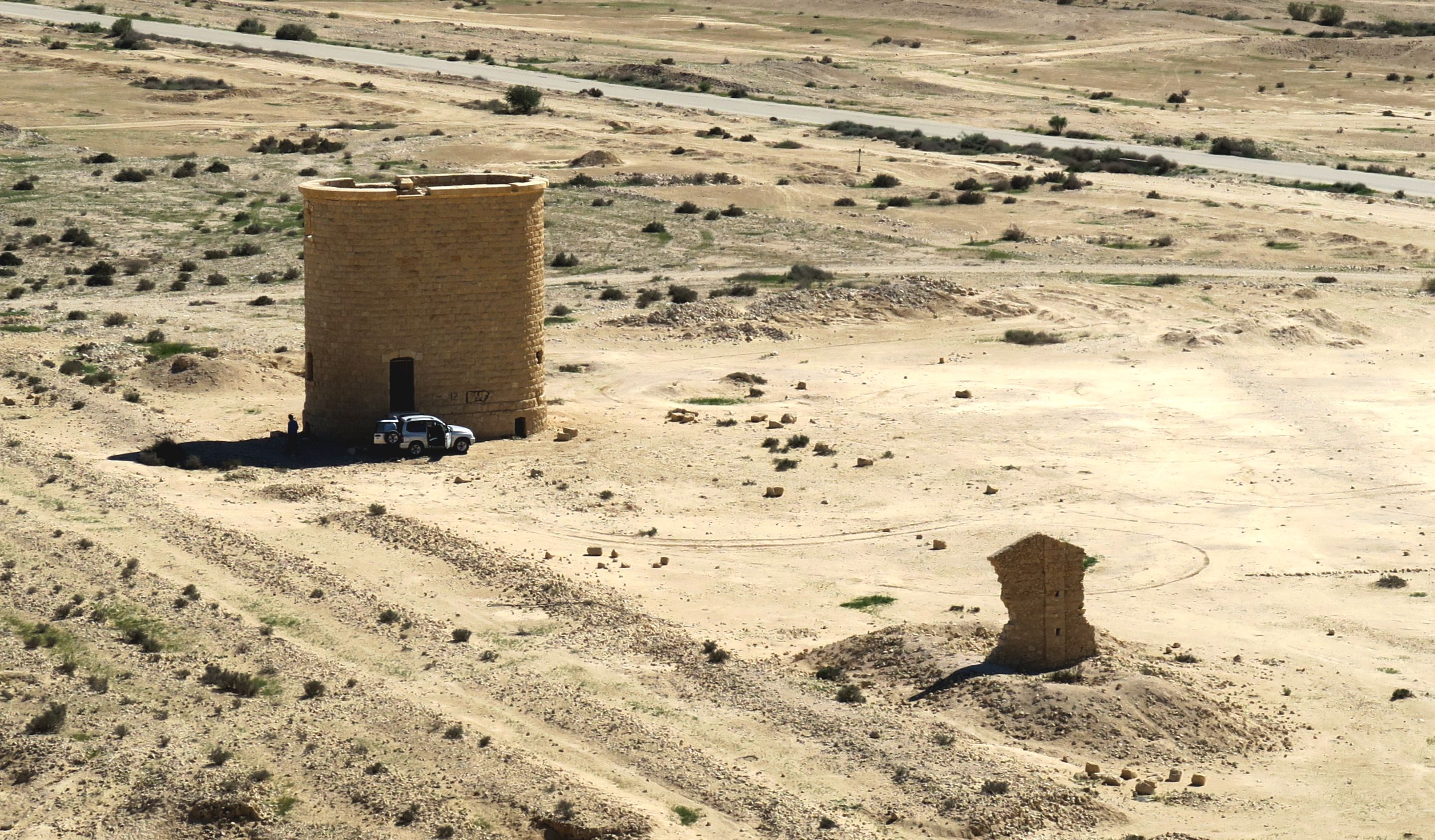 Remnants of Turkish railway station in Nitzana. Left: tower for storage of water for steam locomotives (Water stop). Right: Wall of the Stationmaster's office.